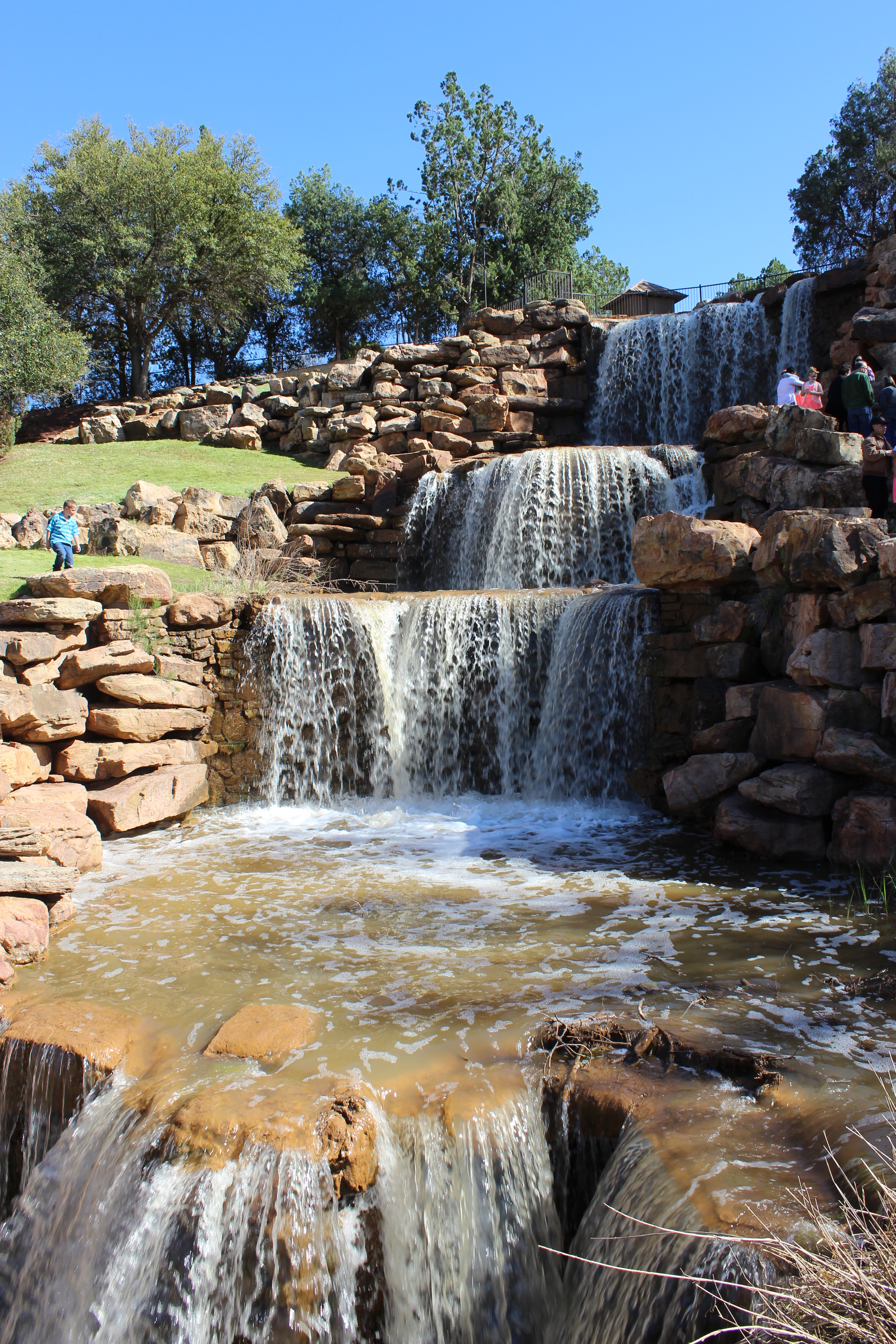 The "restored Falls" of the Wichita River in Wichita Falls, Texas, off Interstate 44.